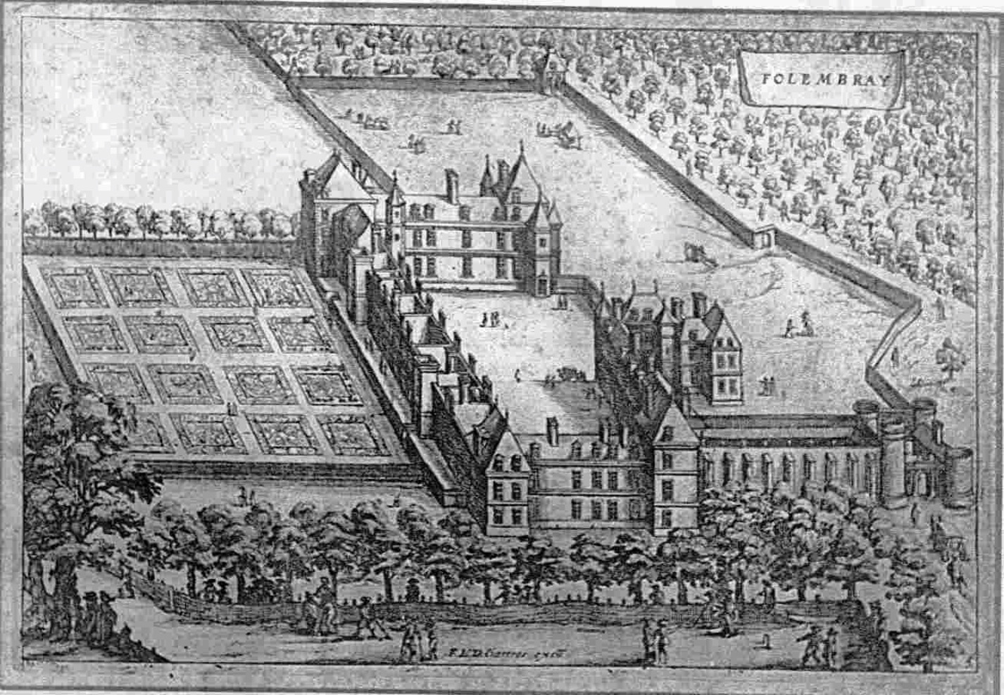 View of the Château de Folembray